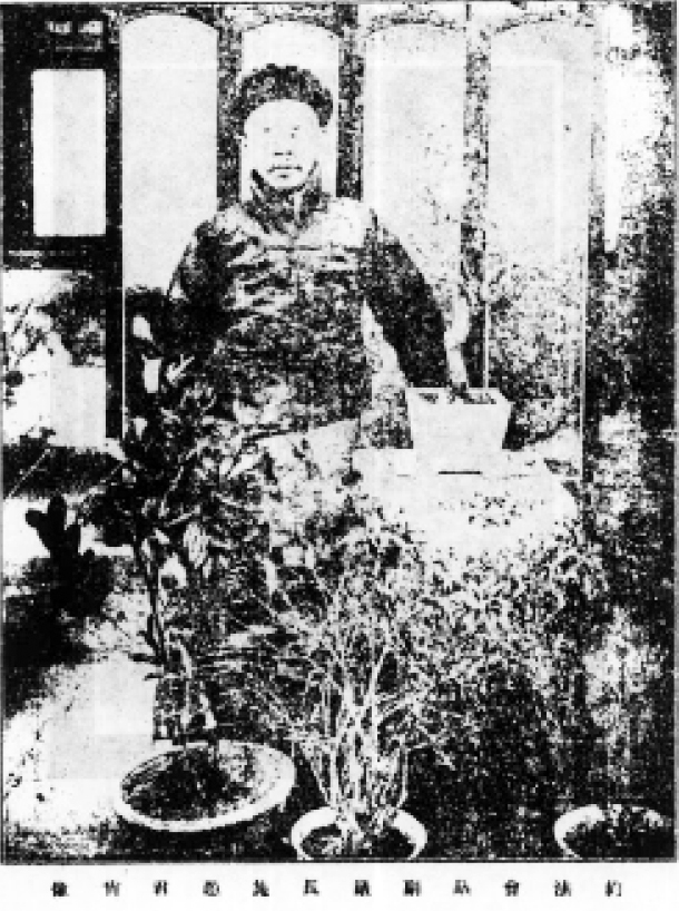 Shi Yu